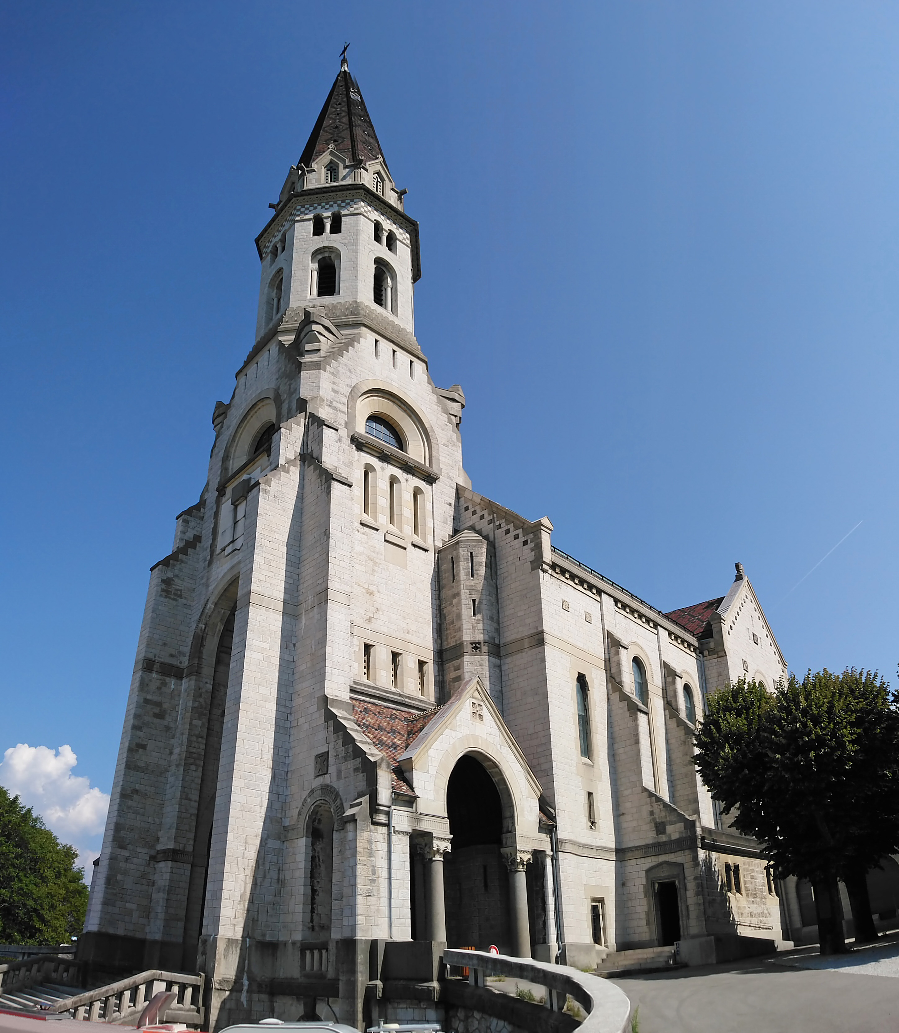 Basilique de la Visitation, Annecy.